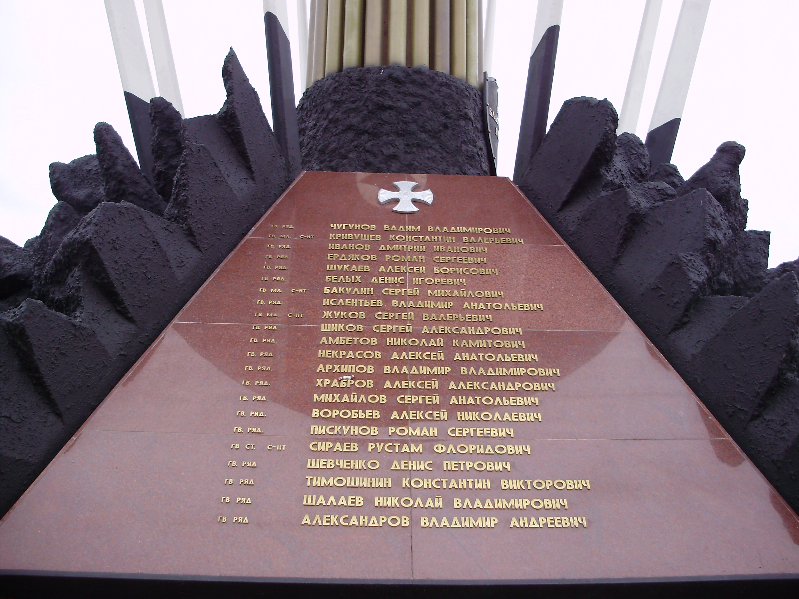 Memorial to the 6th Company in Cherekha (northern side of the postament)